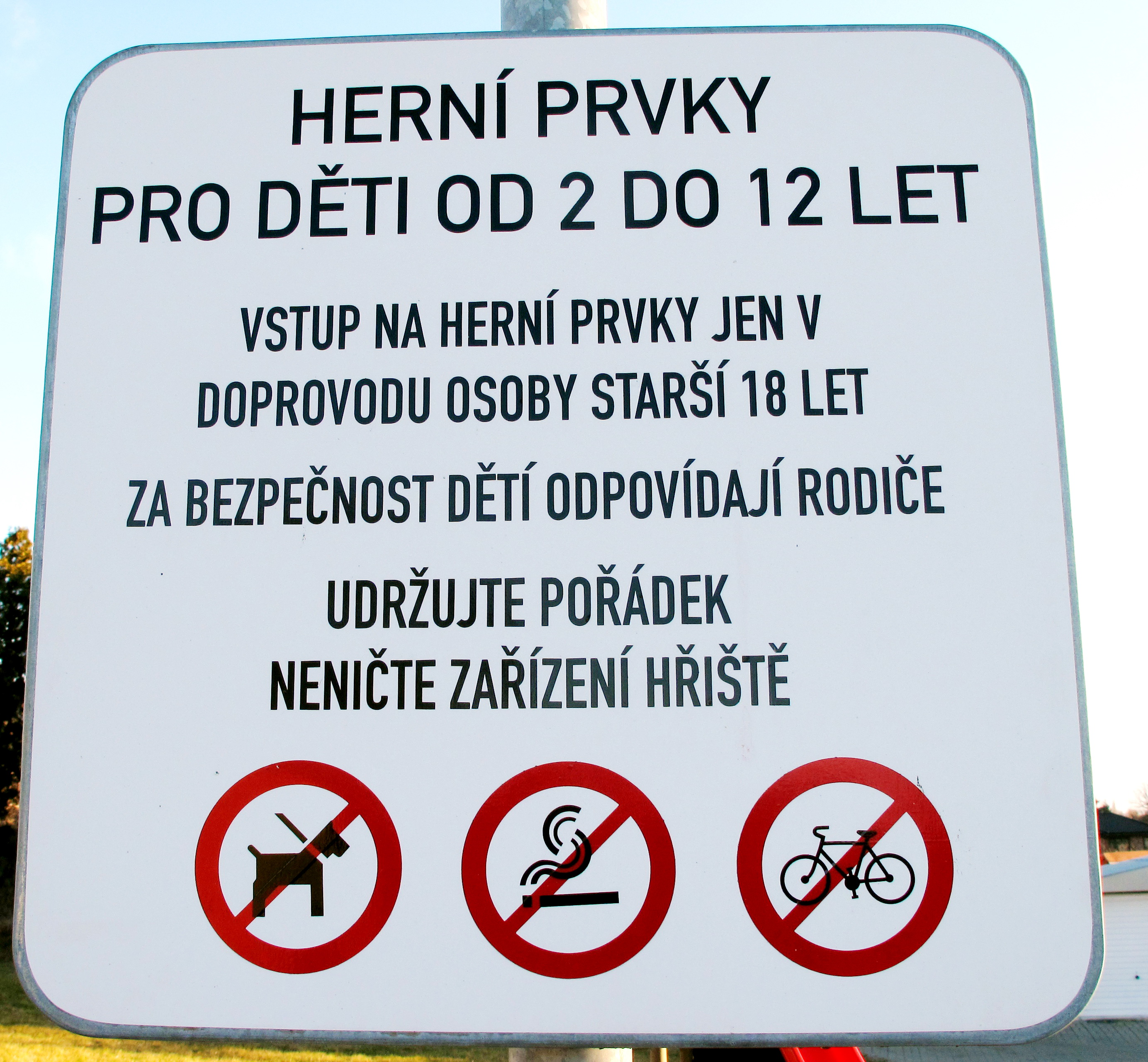 Playground sighn in Studeněves village, Kladno District, Czech Republic.